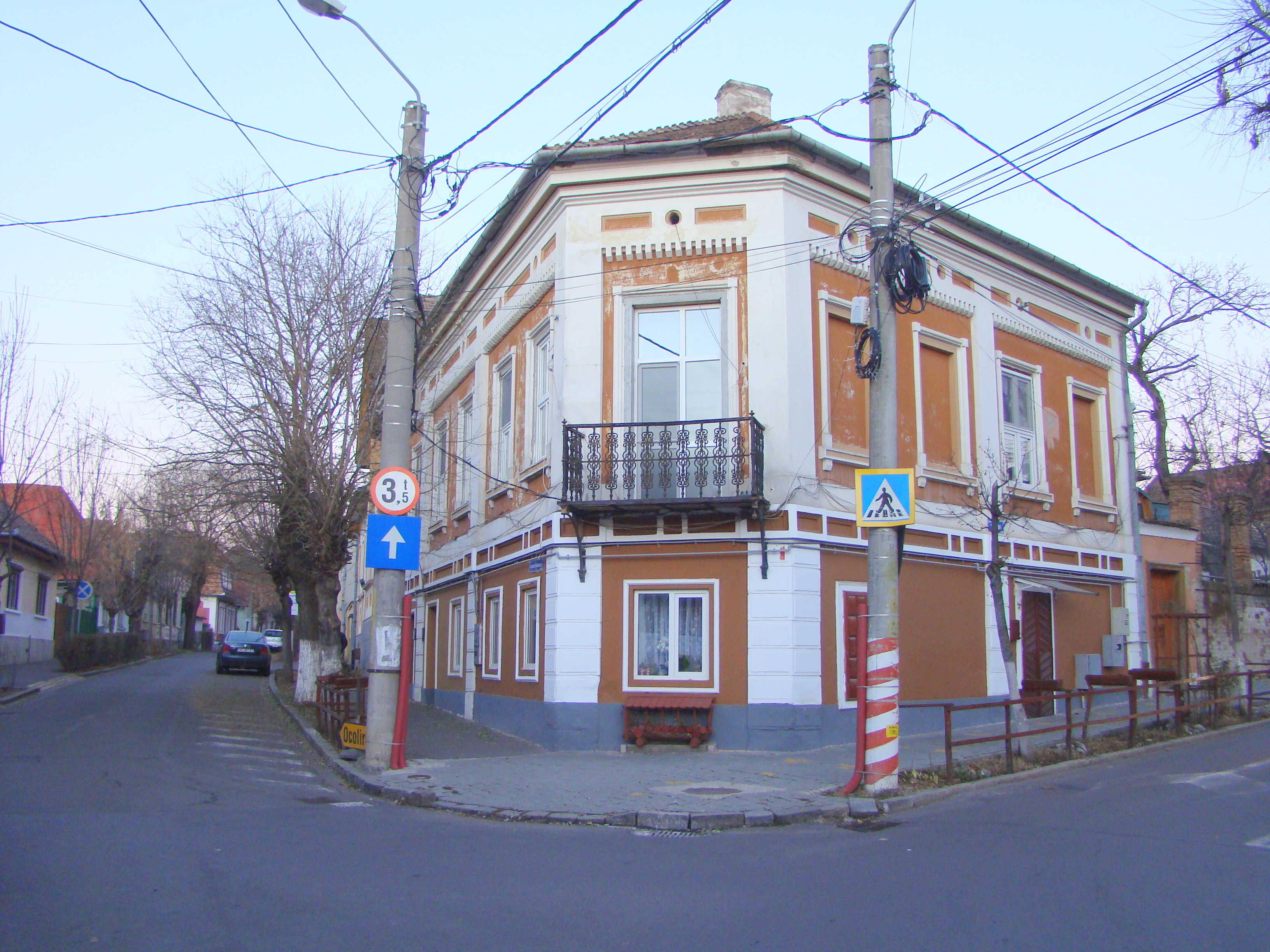 House, historic monument, in Târgu Mureș, Bd. Cetății 1